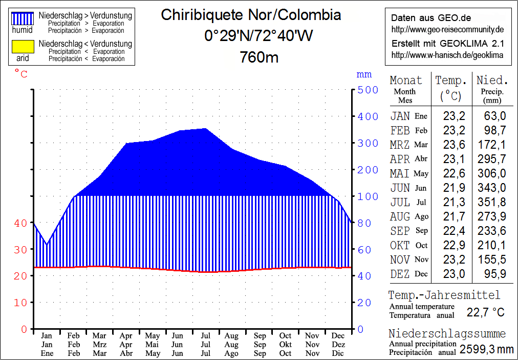 Climate chart in the Walter and Lieth format, metric, °Celsius und millimeters, made with Geoklima 2.1